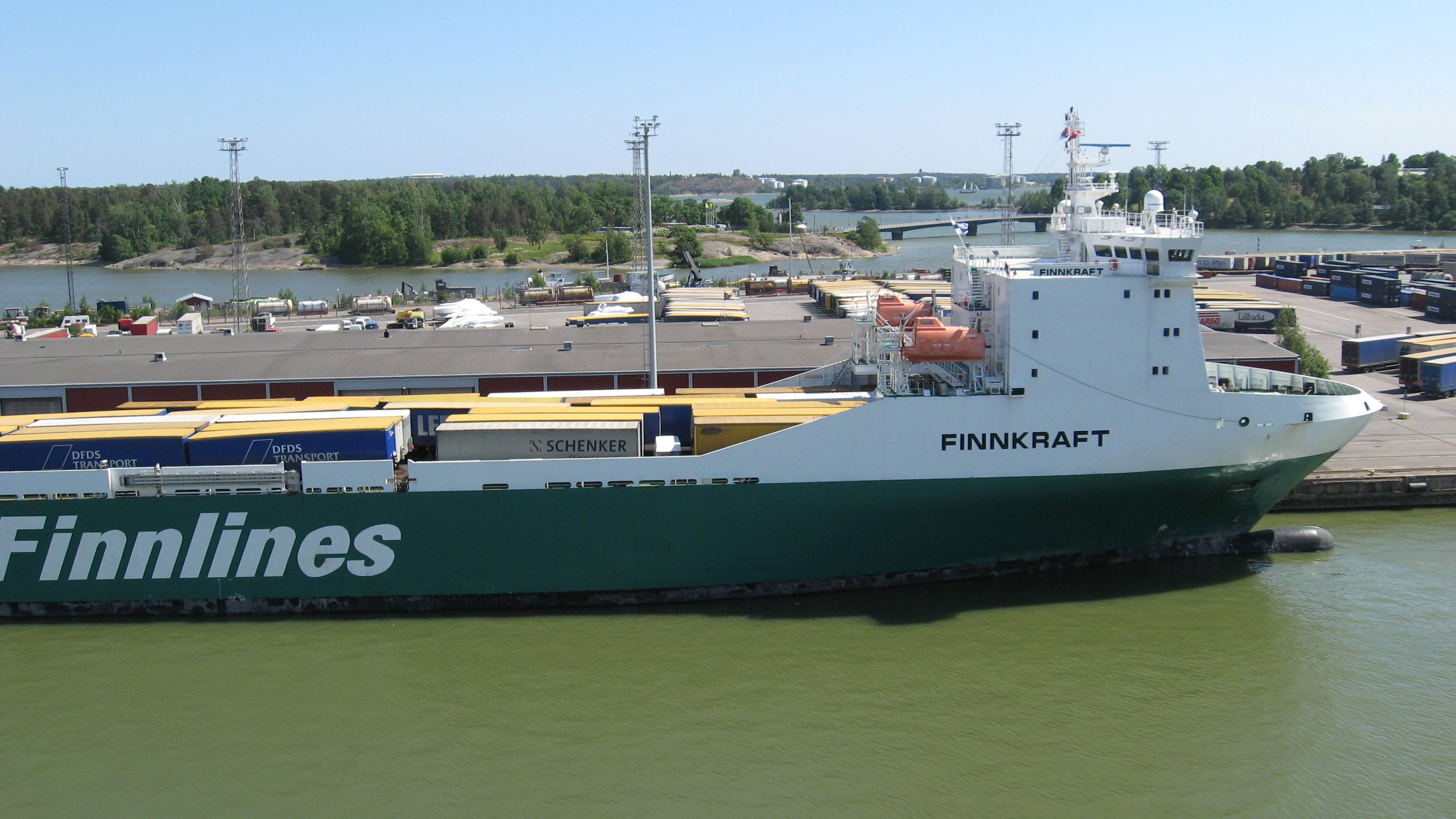 Finnish cargo ship M/S Finnkraft in Helsinki, Finland. IMO Number: 9207883 MMSI Number: 230006000 Callsign: OJNK Length: 163 m Beam: 20 m